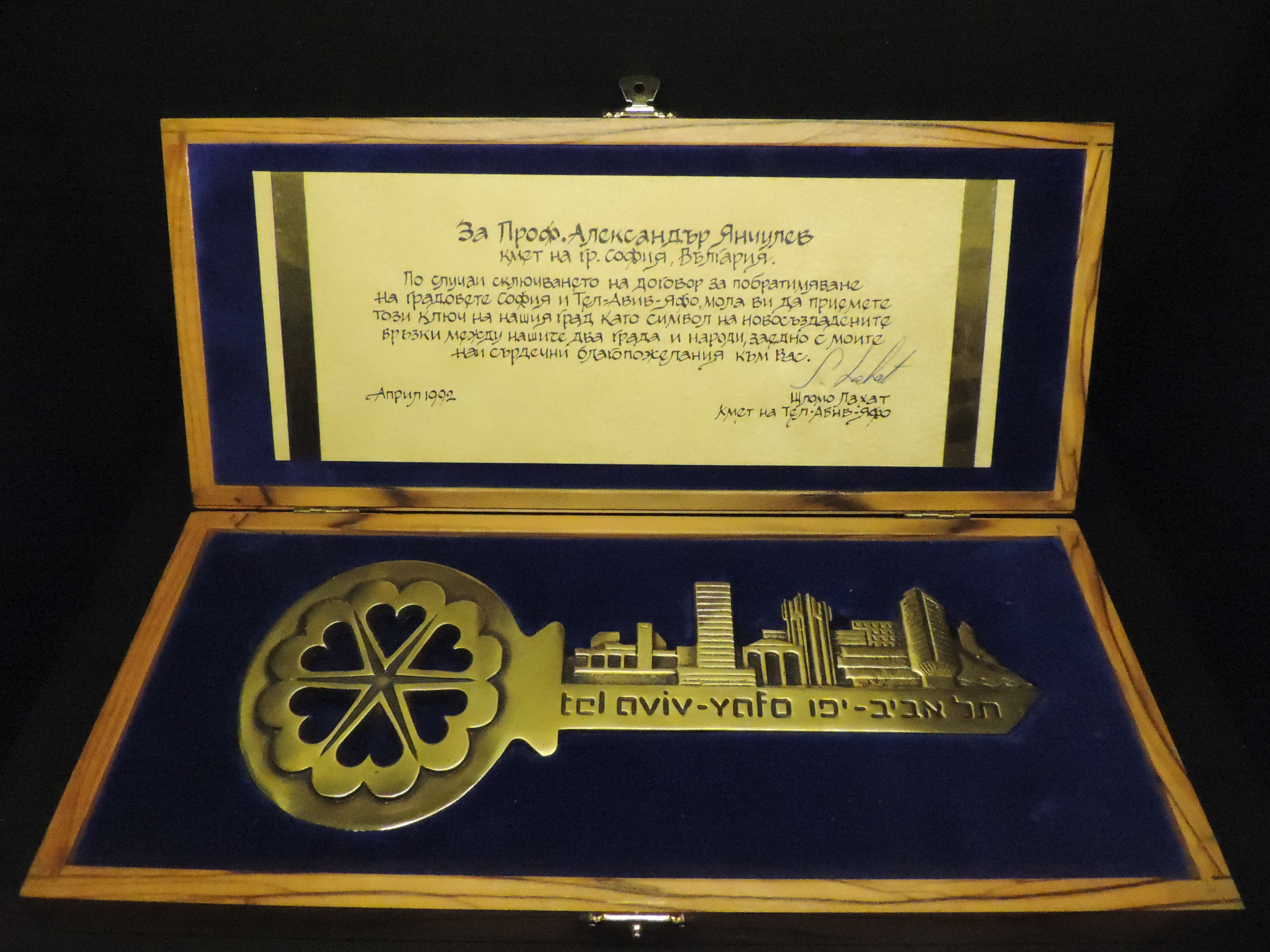 The symbolic "key" of Tel Aviv – Yafo, given in April 1992 by the Tel Aviv mayor Shlomo Lahat to the Sofia mayor Aleksandar Yanchulev on the occasion of the twinning of both cities. Exhibit of the National History Museum, Sofia, Bulgaria.